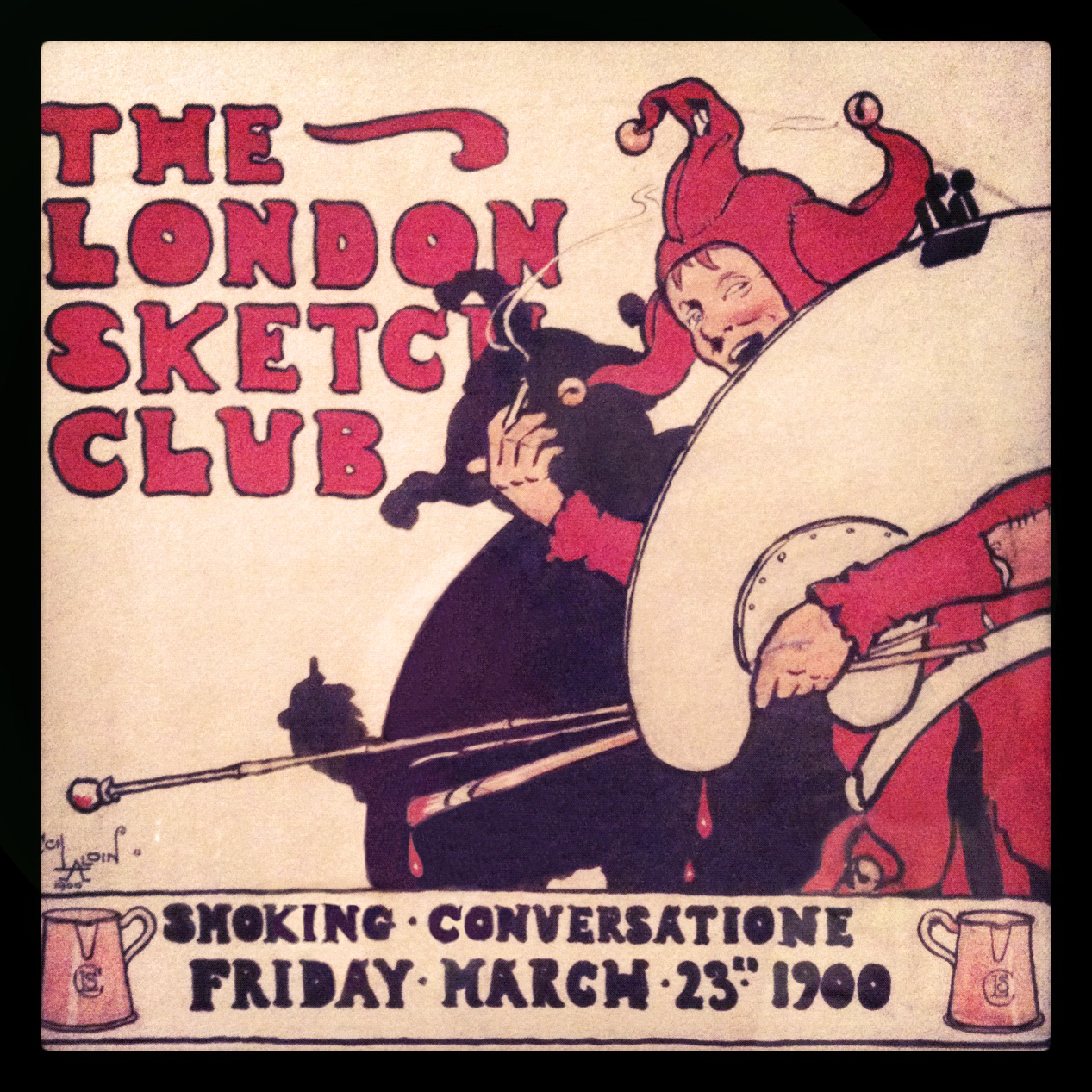 Invitation to one of the regular "smoking" evenings at the London Sketch Club. Designed by Cecil Aldin.